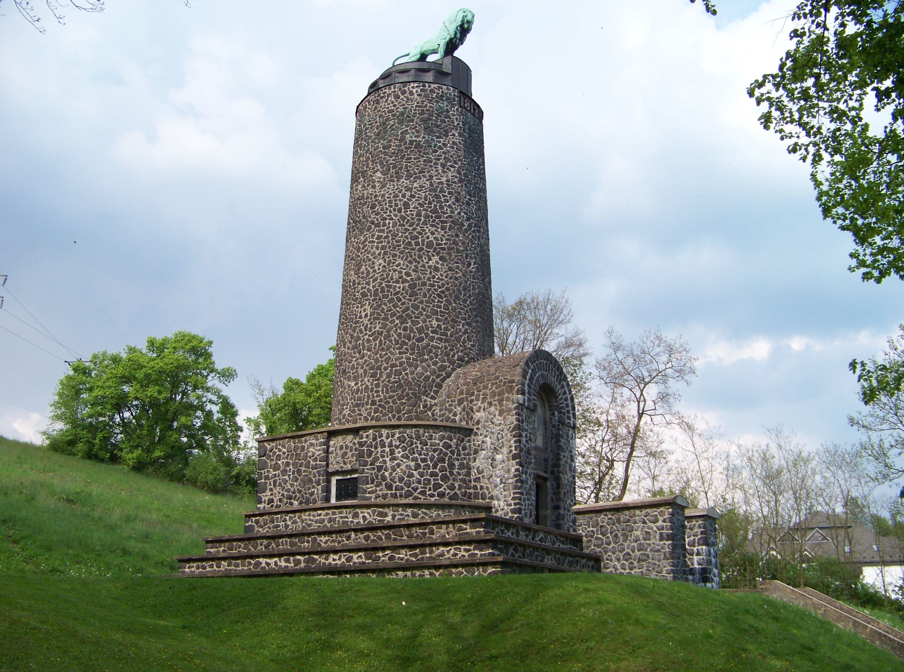 Chlumec, Ústí nad Labem District, Ústí nad Labem Region, Czech Republic. The Austrian monument to the 1813 Battle of Kulm.